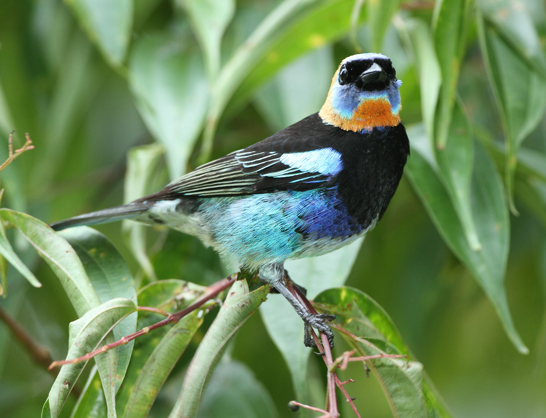 Golden-hooded tanager (Tangara larvata), CATIE, Turrialba, Costa Rica